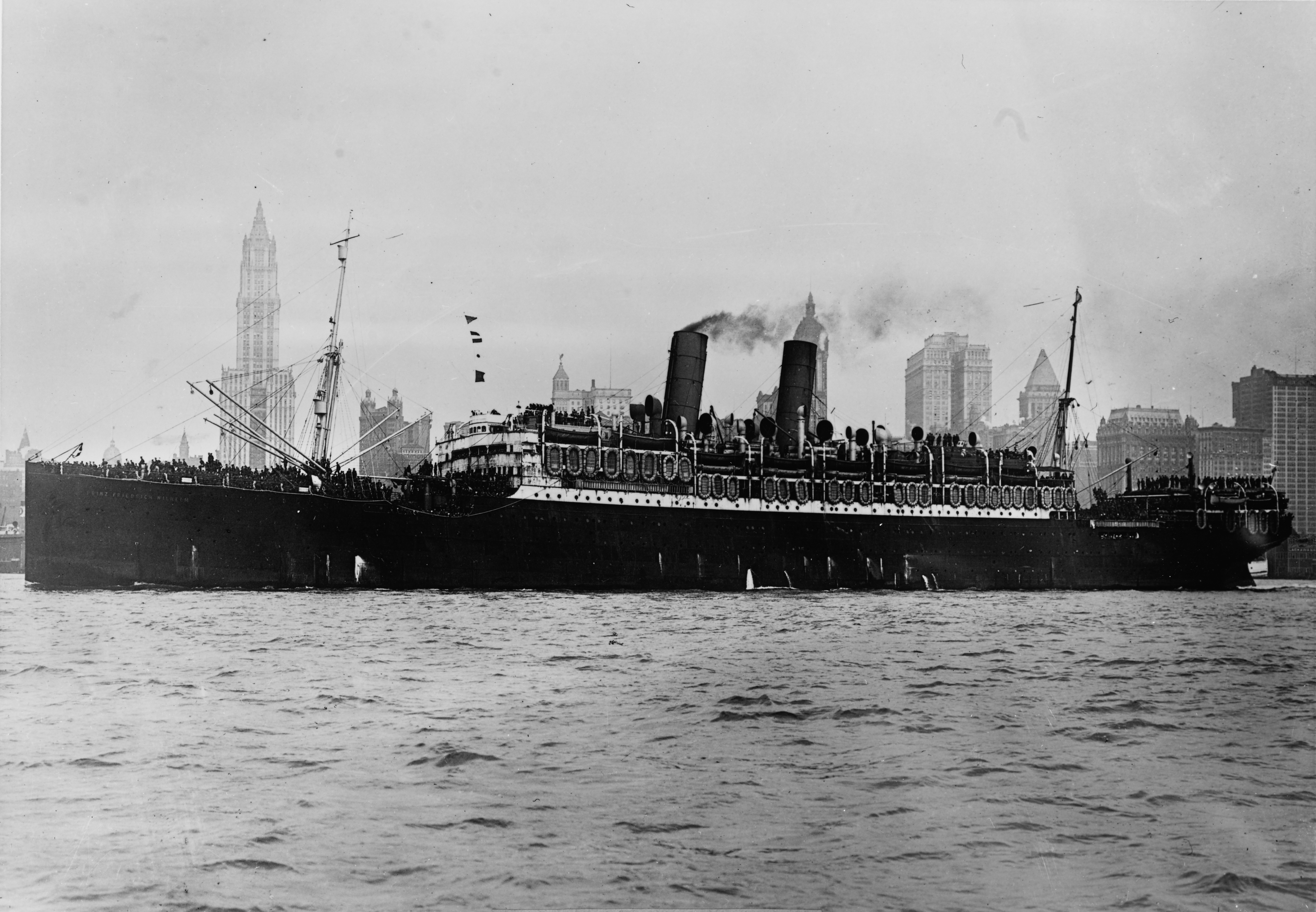 "(ID # 4063) Off Manhattan Island, New York City, with her decks crowded with U.S. troops returning from Europe, 1919. U.S. Naval History and Heritage Command Photograph." This version has been cropped by uploader and saved to jpg format.